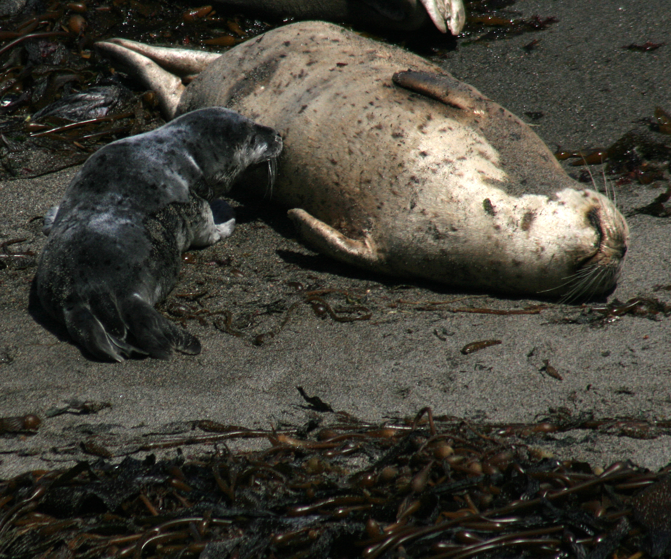 Harbor seal Phoca vitulina is nursing at Point Lobos